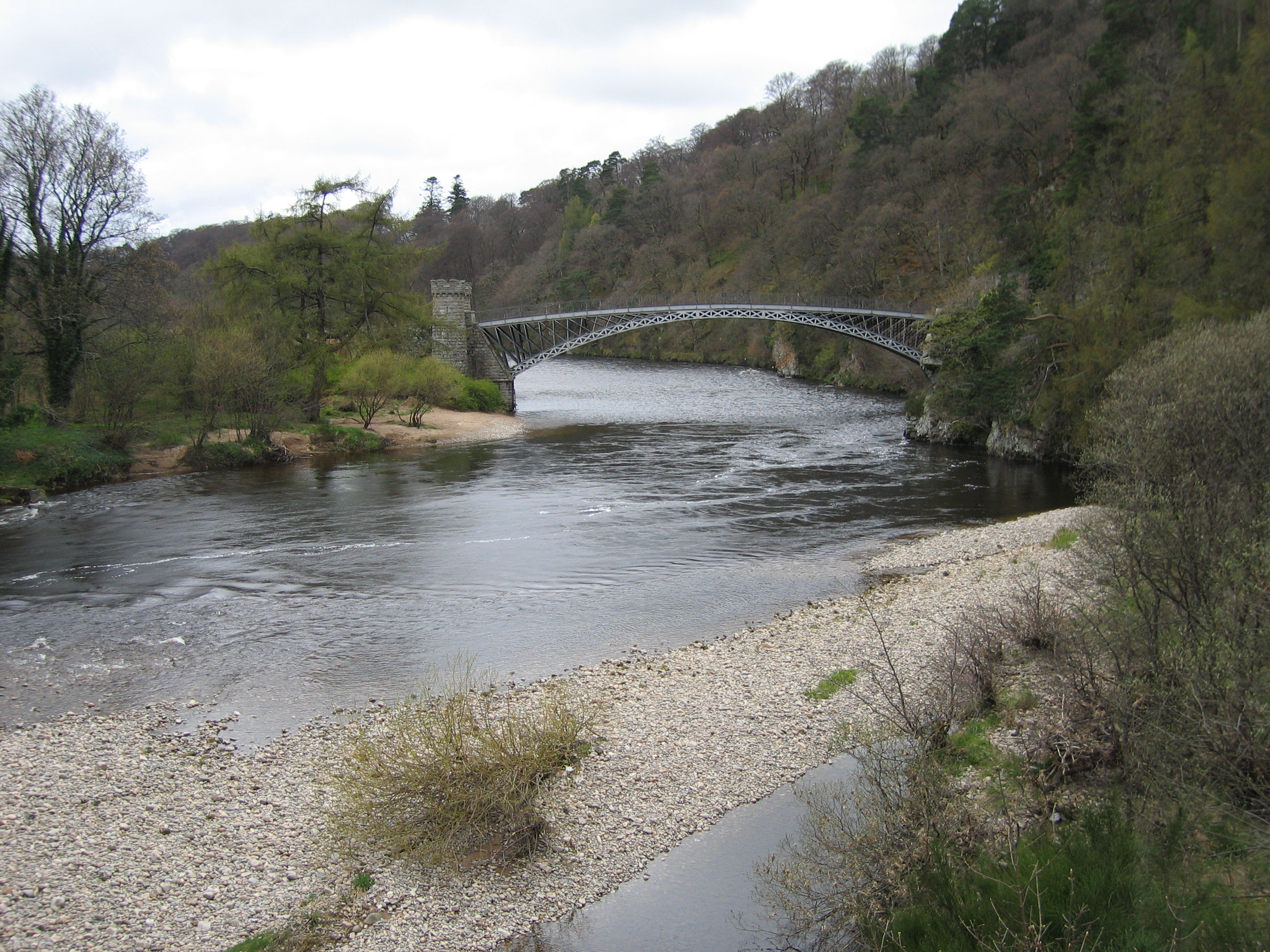 River Spey in Scotland